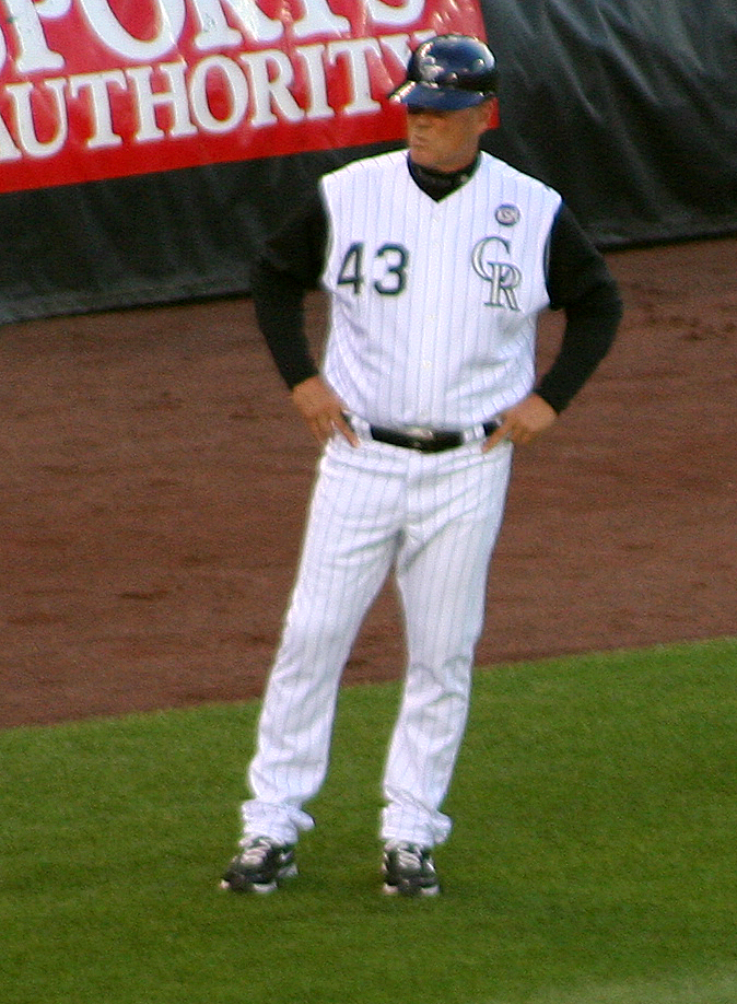 Rich Dauer, a third-base coach for the Colorado Rockies baseball team.